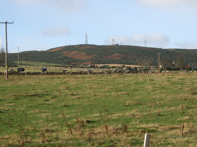 View of Brimmond Hill From near Newhills.